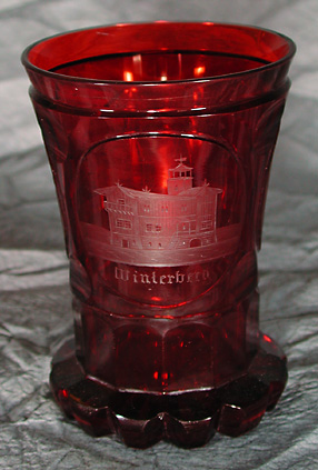 Souvenir Glass with Winterberg theme, ca. 1850-1860